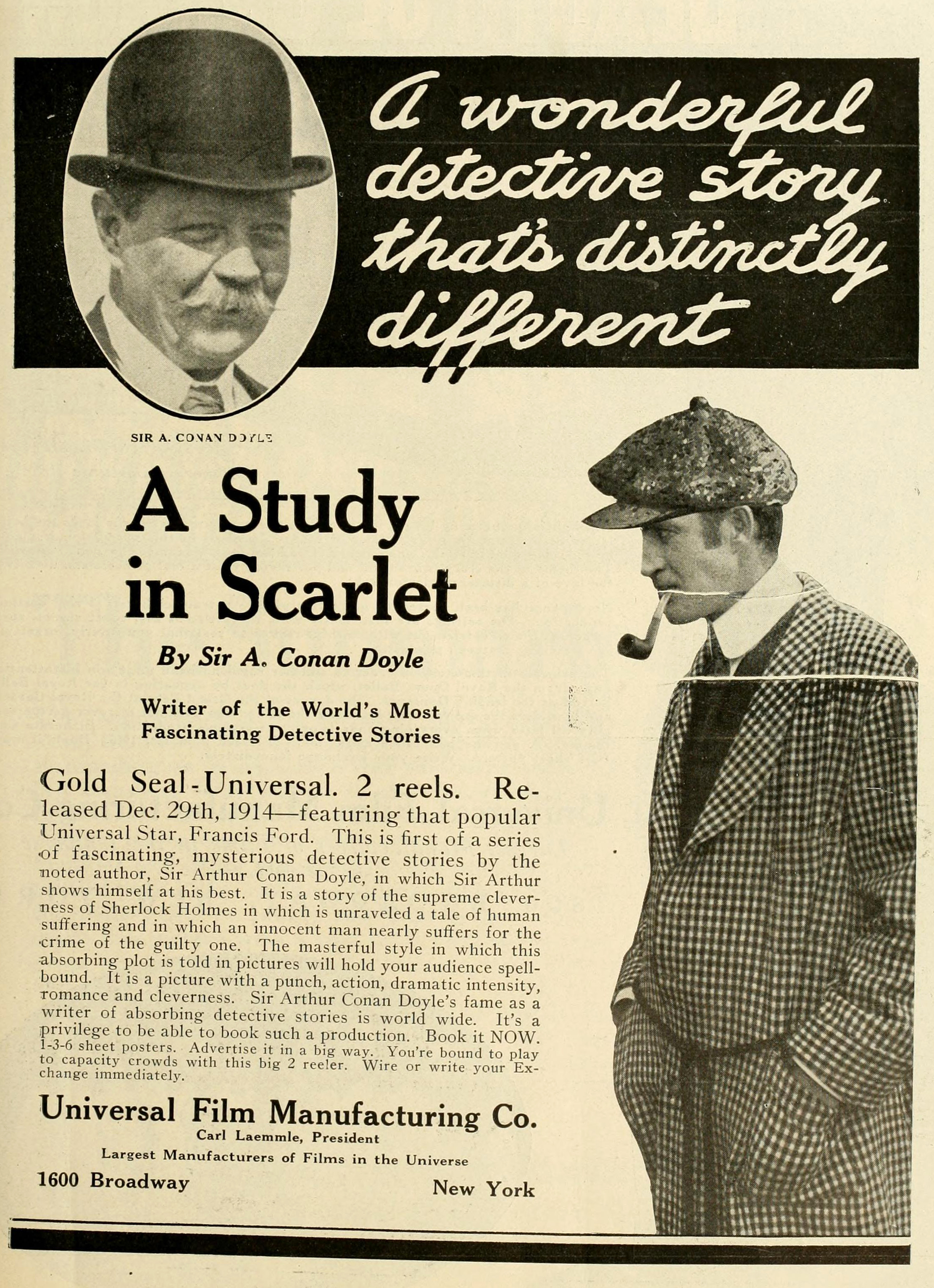 Advertisement in The Moving Picture World